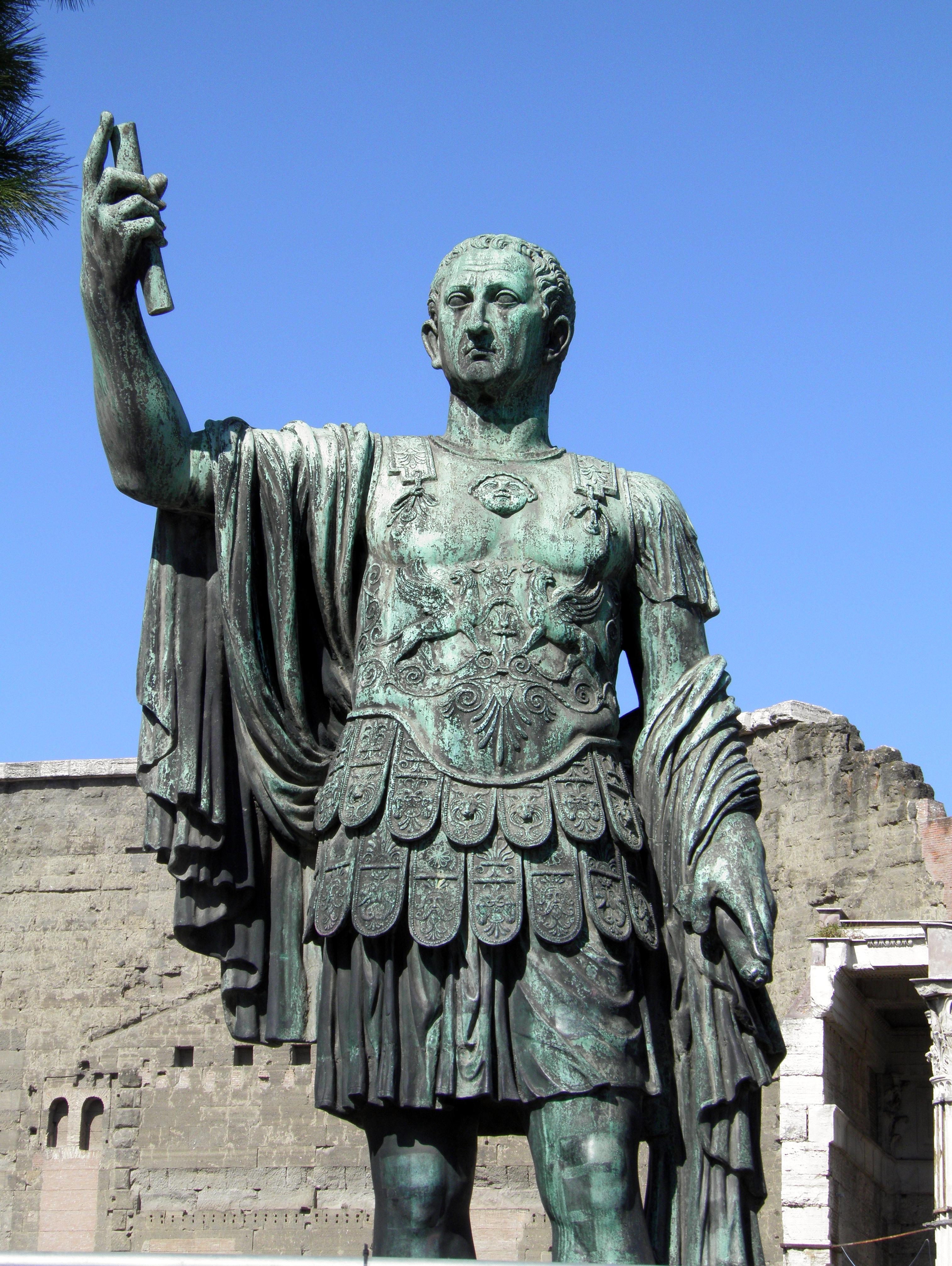 Bronze statue of emperor Nerva (96 AD – 98 AD), Forum of Nerva, Rome